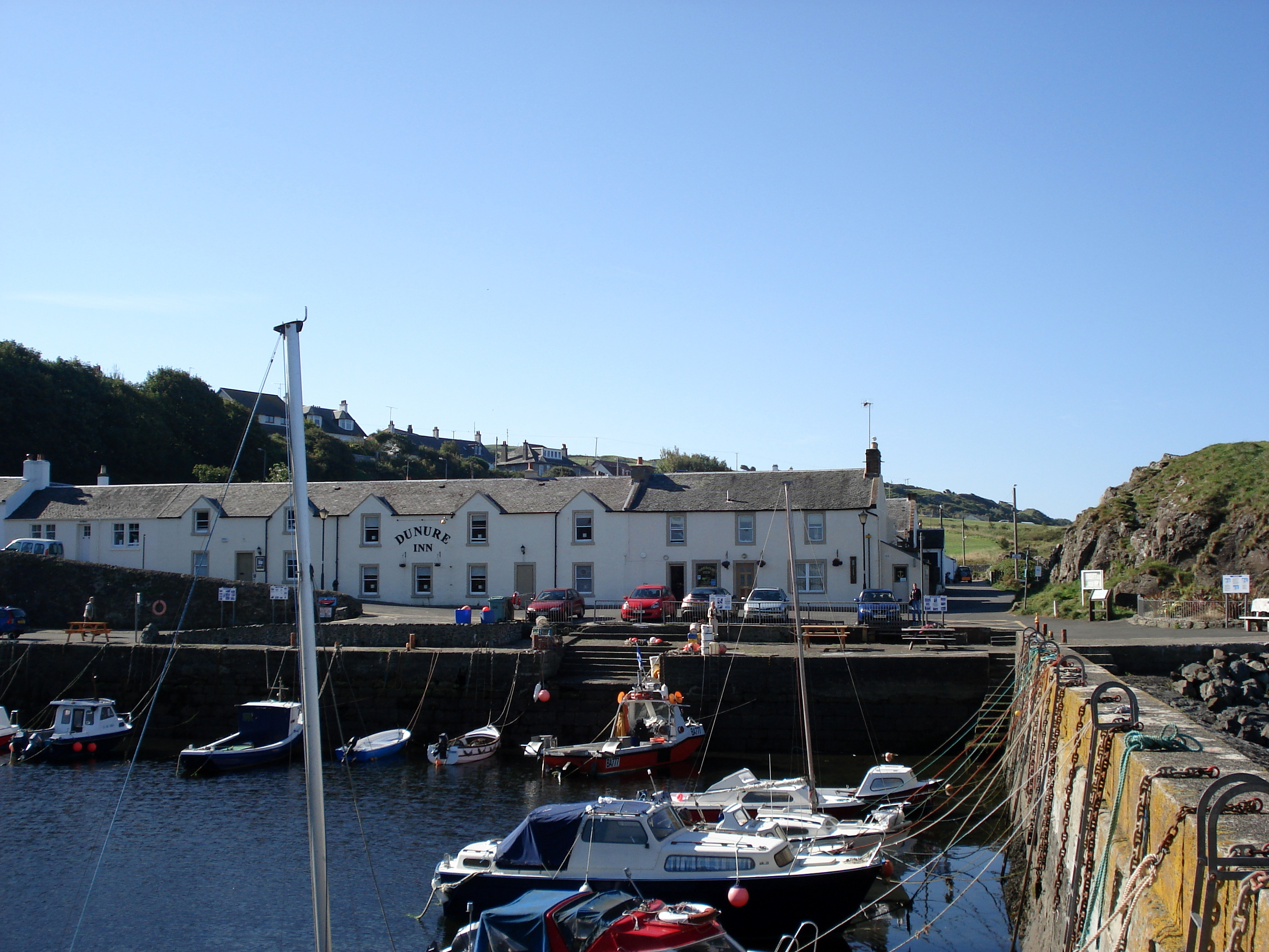 A photo of Dunure harbour